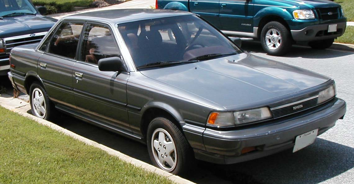 1987-1990 Toyota Camry photographed in USA.